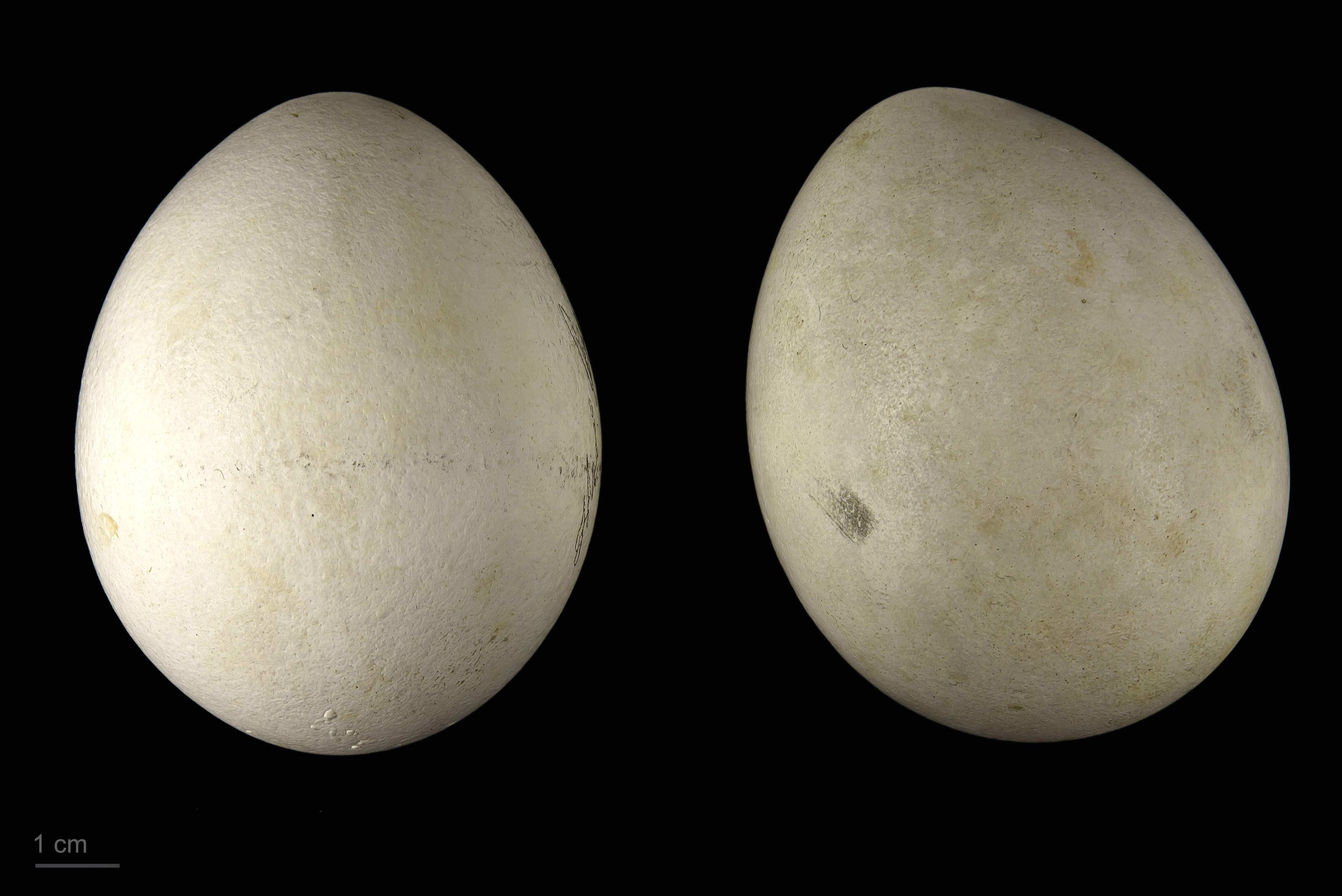 Eggs of Pallas's fish eagle Two specimens of the same spawn ; collection of Jacques Perrin de Brichambaut.